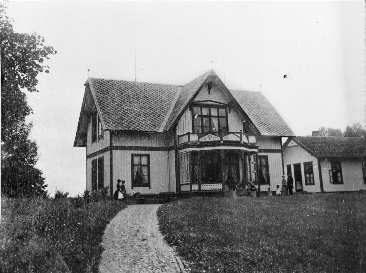 Depicted place: Esviken